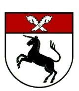 Coat of arms of the Town Wrestedt.